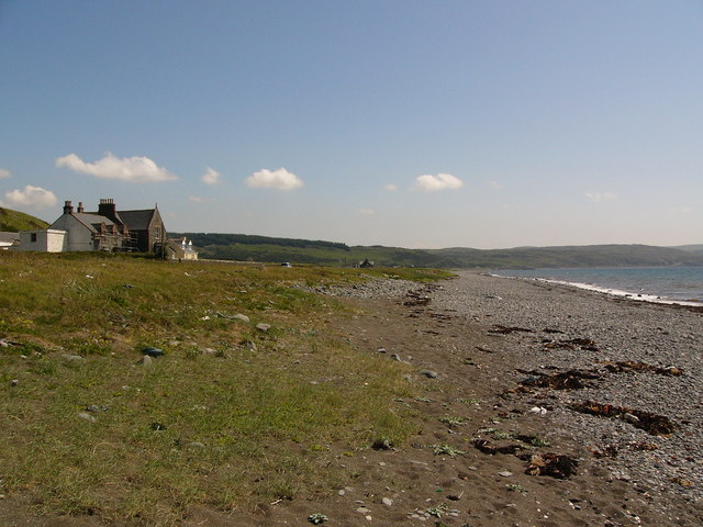 Craig Lodge and Auchenmalg shore